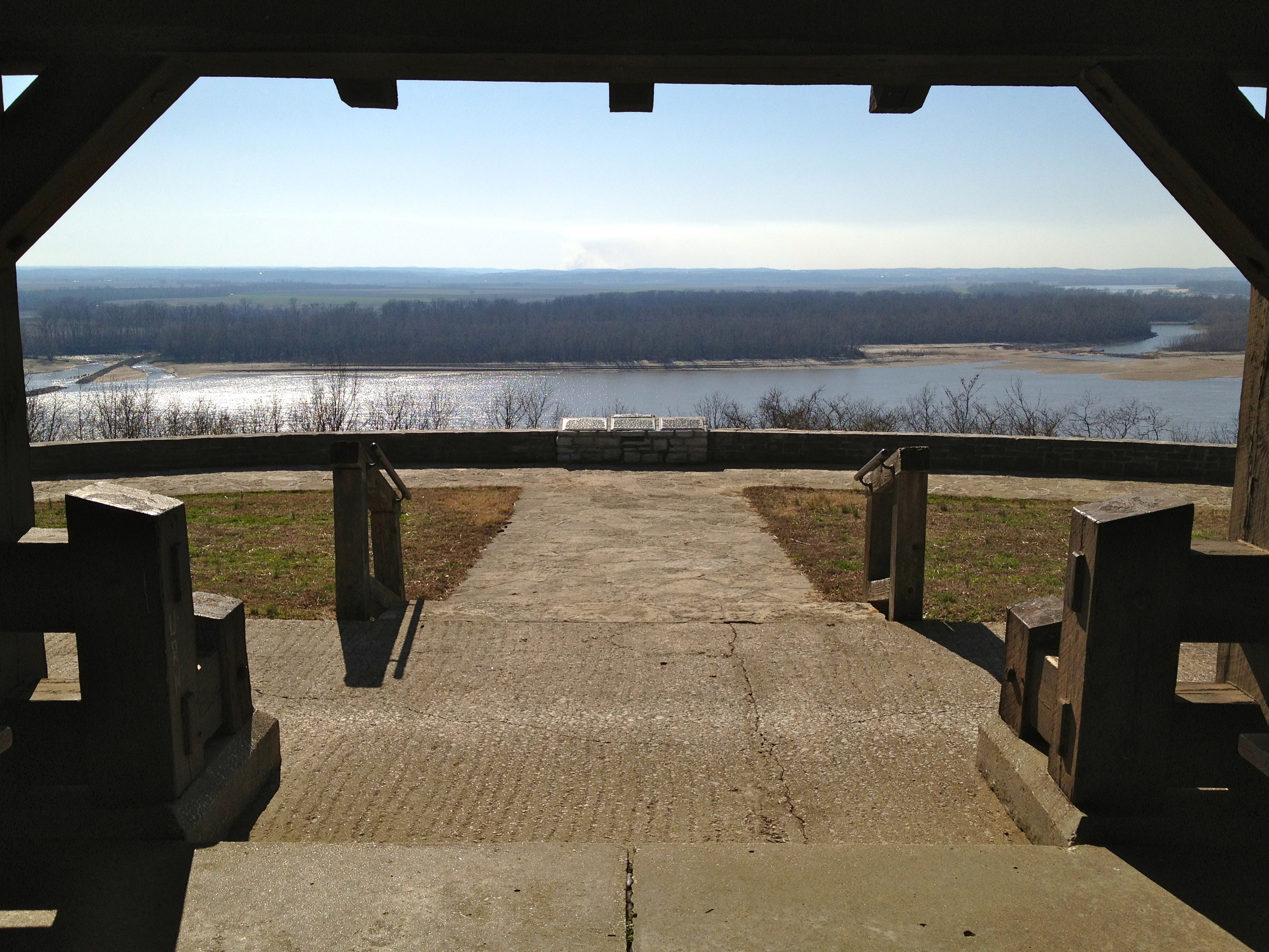 The view from Ft. Kaskaskia State Park overlooking Old Kaskaskia and the Mississippi River.